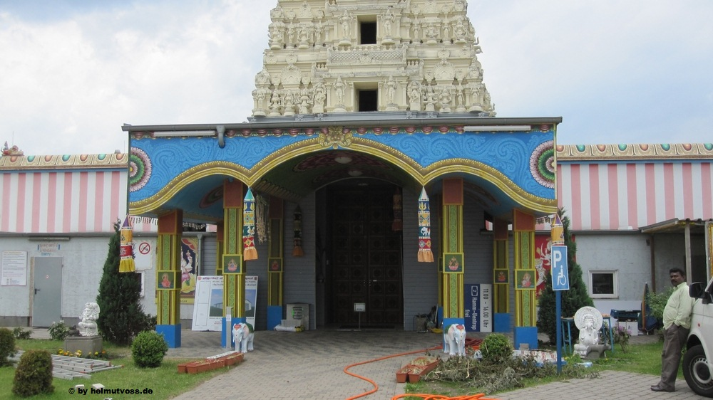 Sri-Kamadchi-Ampal-Tempel